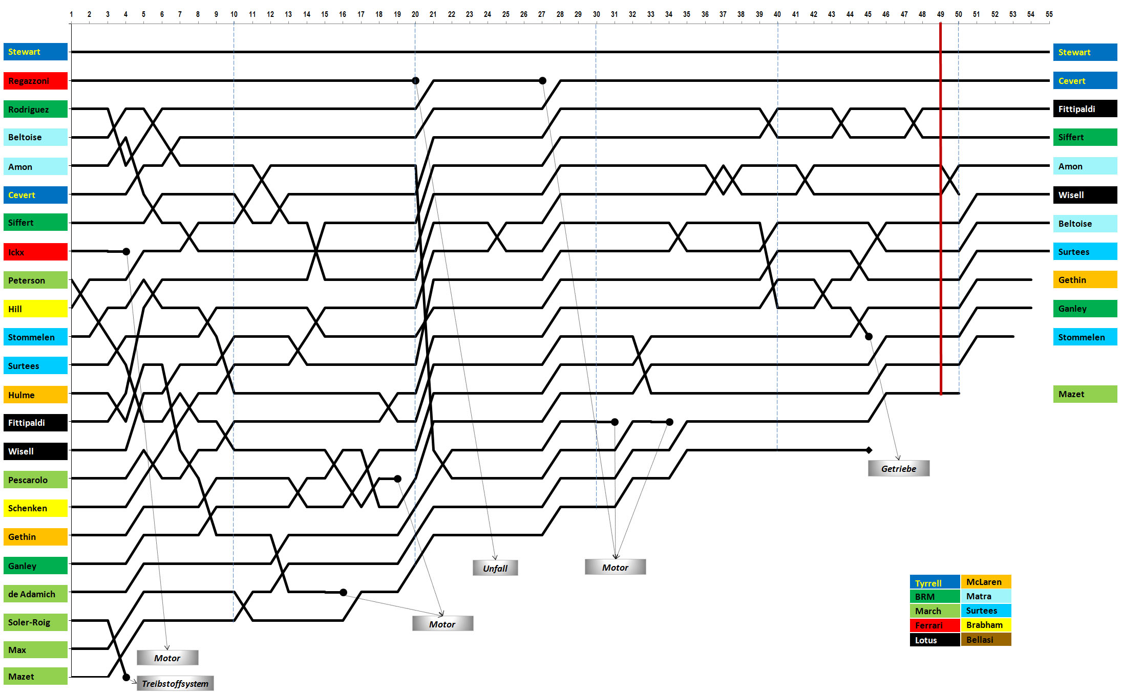 Round table french Grand Prix 1971